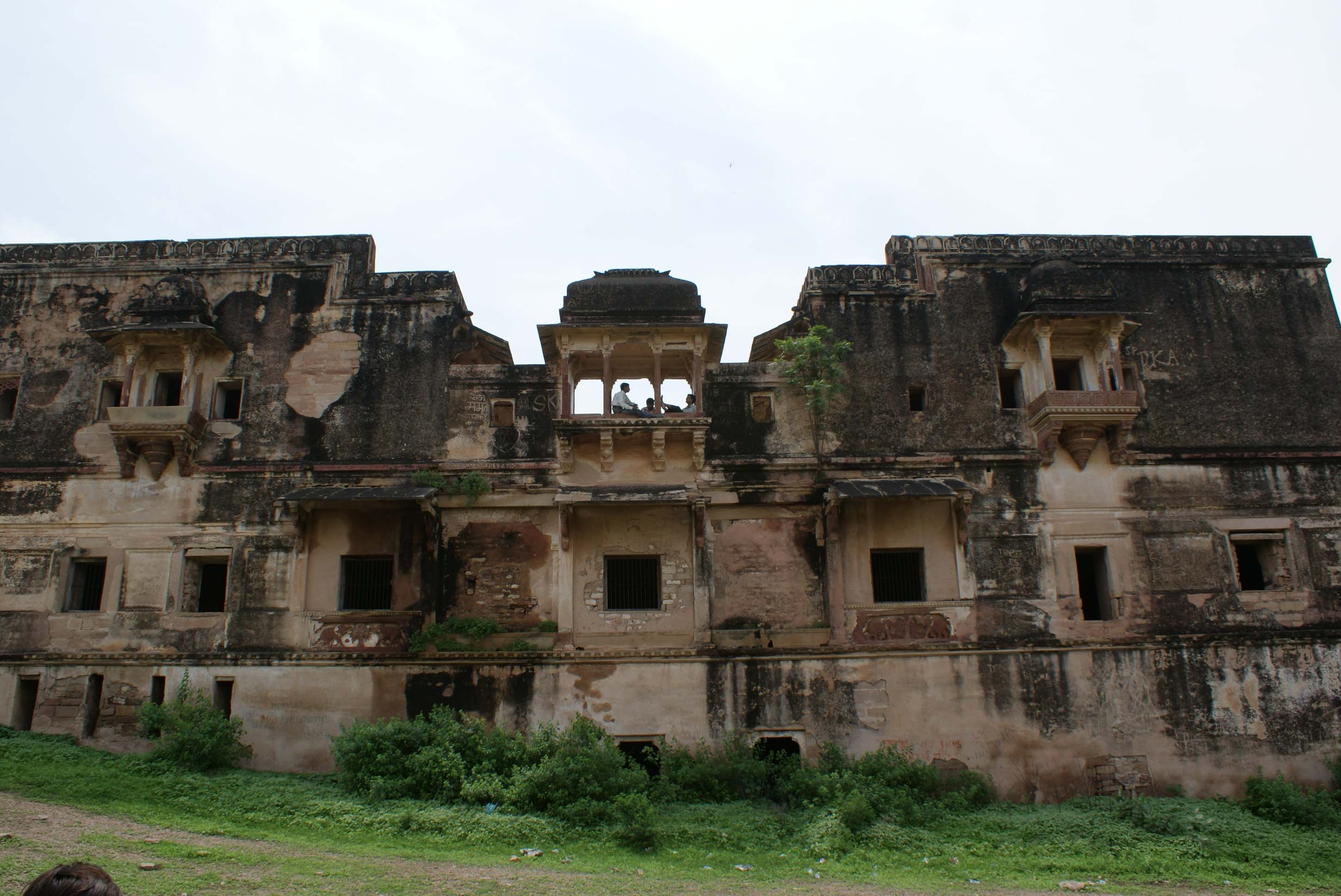 Karan Palace at Gwalior Fort